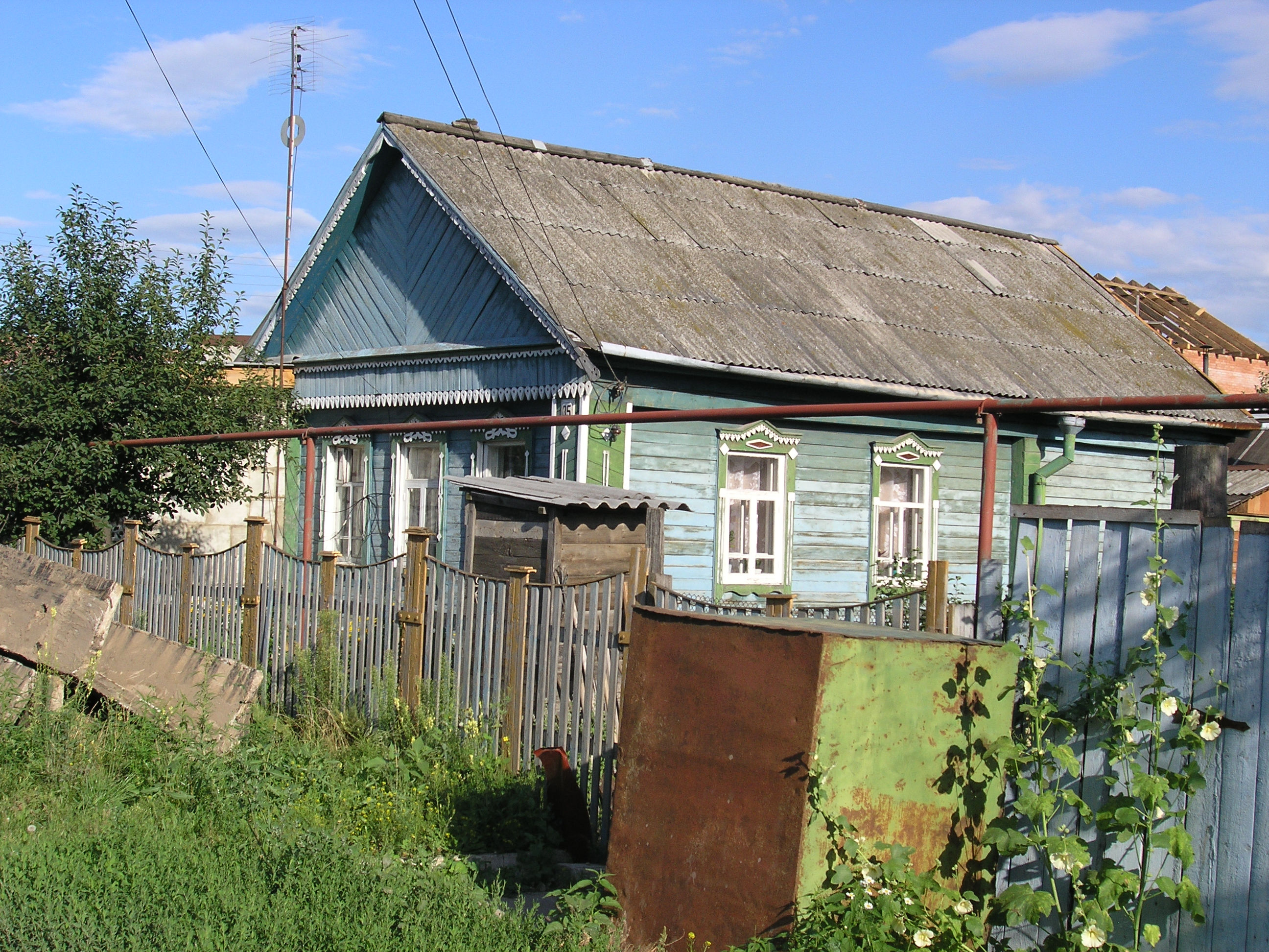 Private house district, Togliatti, Russia